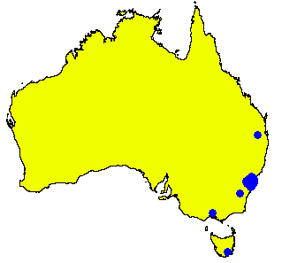 Angophora hispida occurrence data downloaded from Australasian Virtual Herbarium using on 21 March 2019